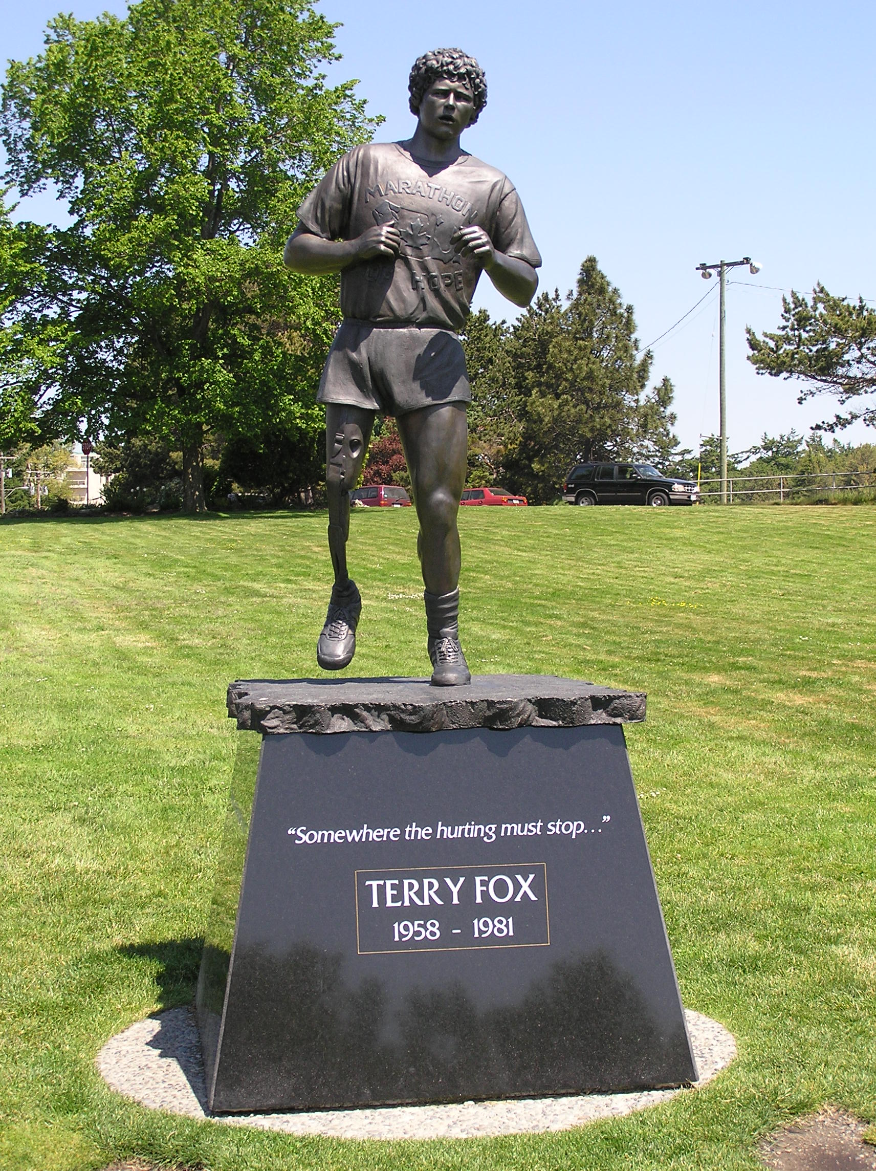 Monument in honour of Terry Fox at the Beacon Hill Park in Victoria BC.